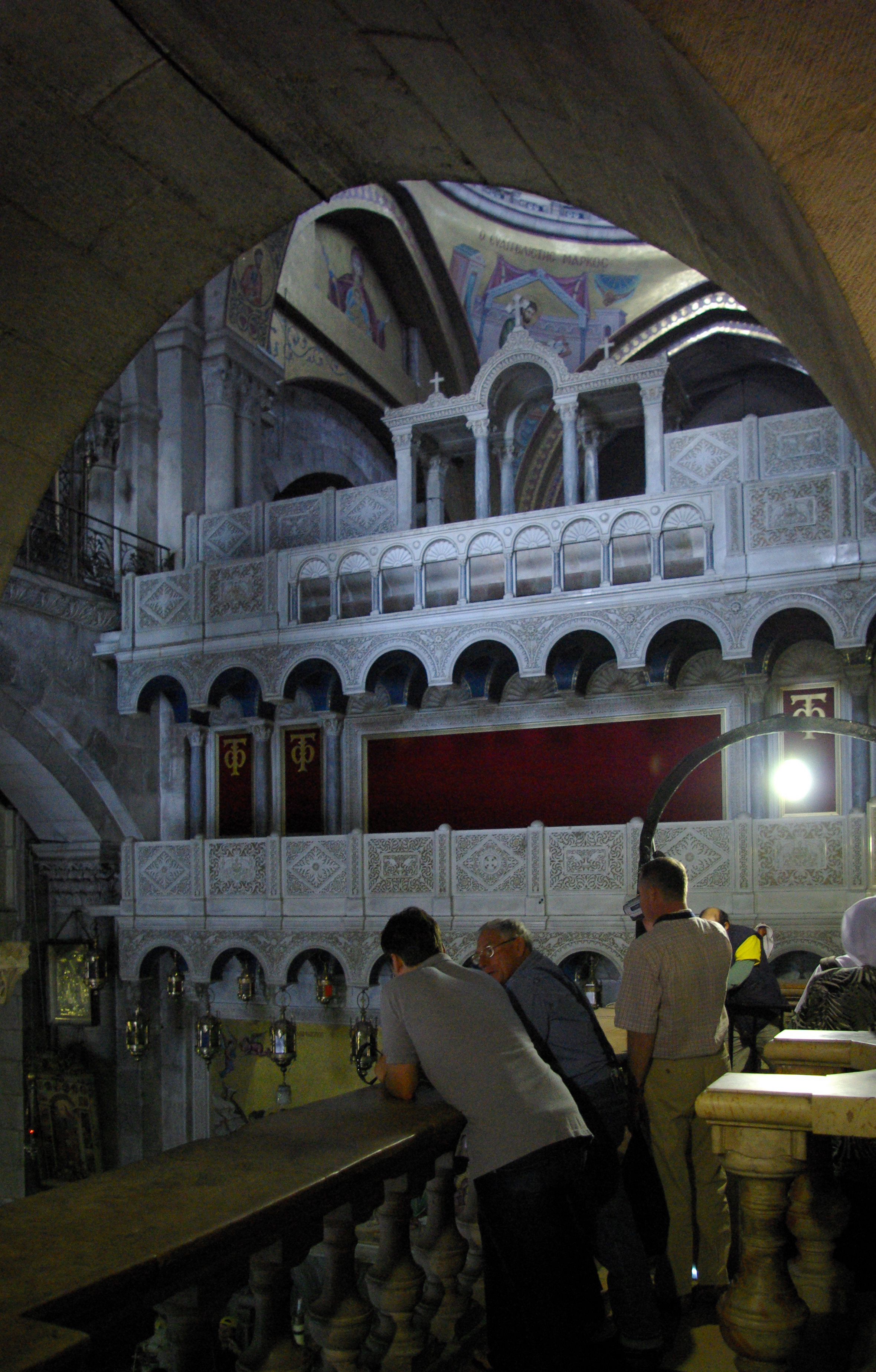 Jerusalem, Church of the Holy Sepulchre